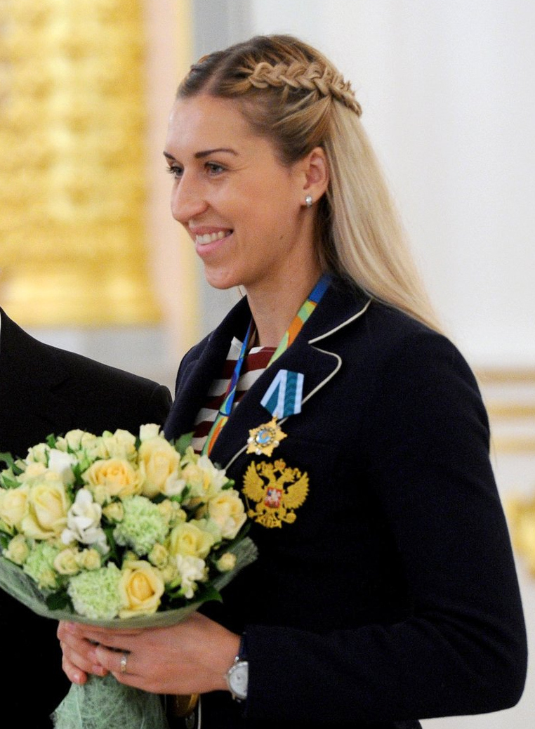 Vladimir Putin presented state awards to the Russian athletes who won gold medals at the 2016 Olympic Games in Rio de Janeiro (Brazil).